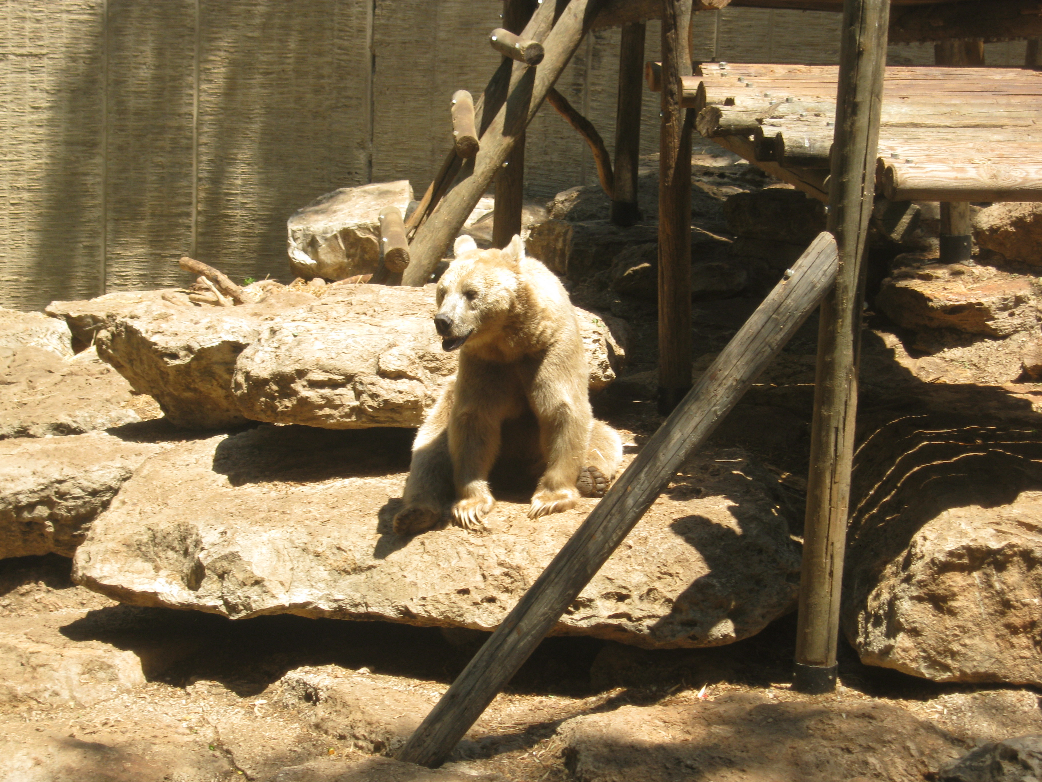 in the Ramat Gan Safari